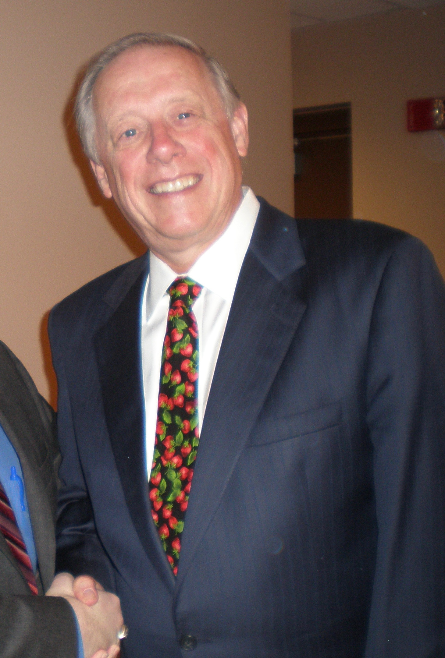 Phil Bredesen at a luncheon in Humboldt